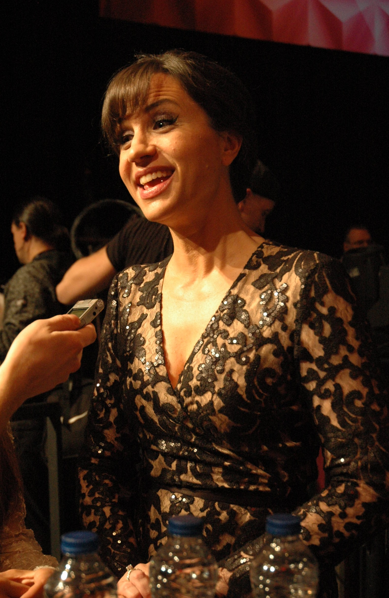 Swedish TV presenter Petra Mede after first semi-final of Melodifestivalen 2016